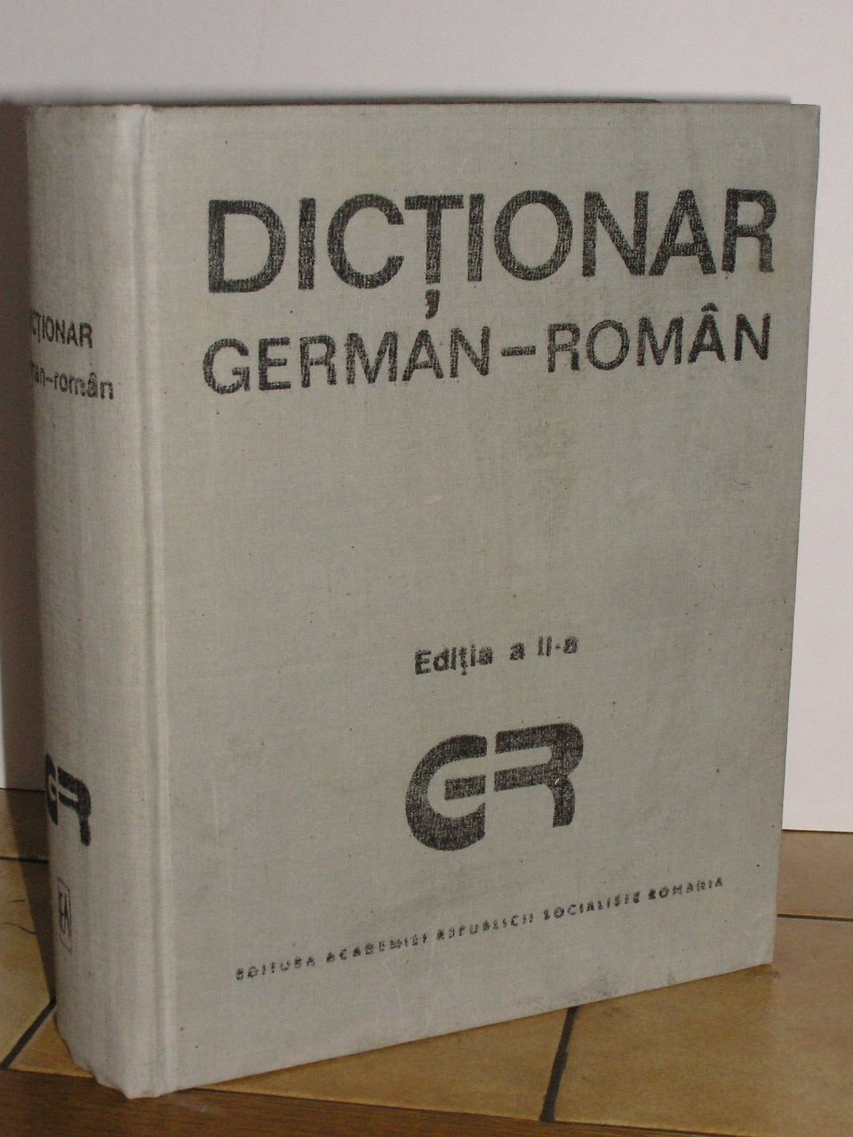 Dictionary, German - Romanian